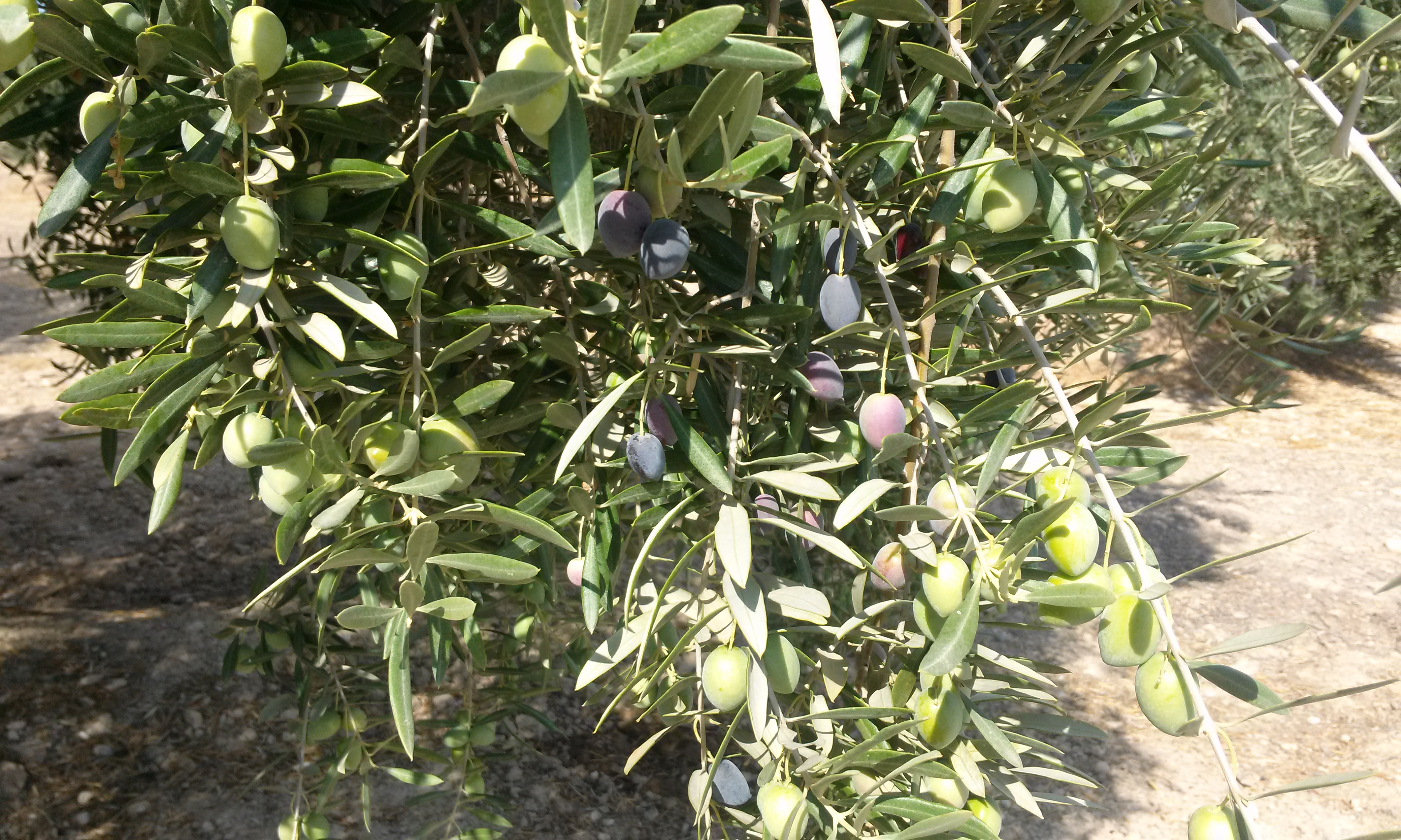 Olives of the Picual variety, from a olive tree at North of Jaén city.